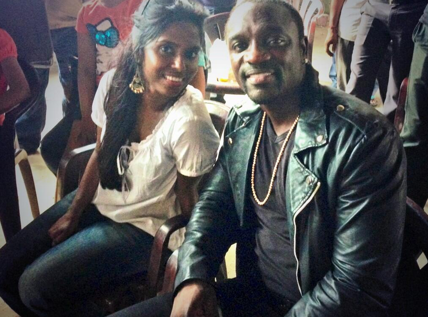 Vasuki Bhaskar with Akon on the shooting spot of Simbu's Love anthem.